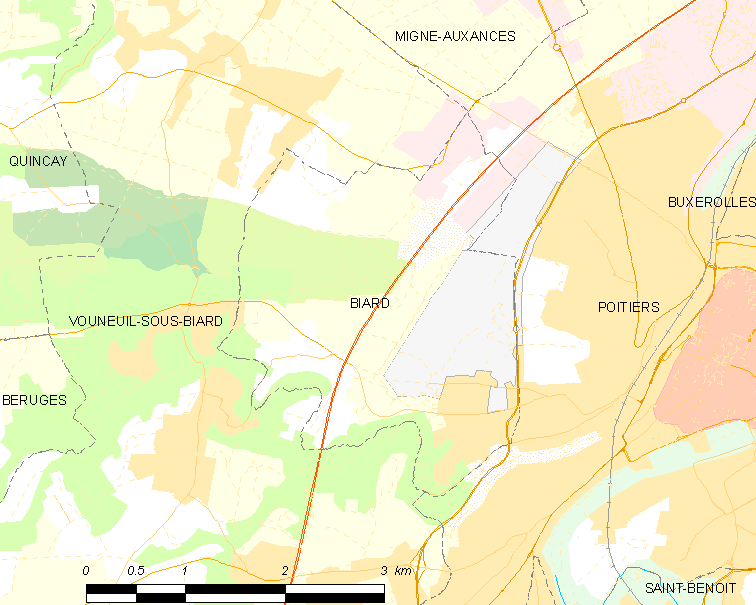 Map of French municipality Biard